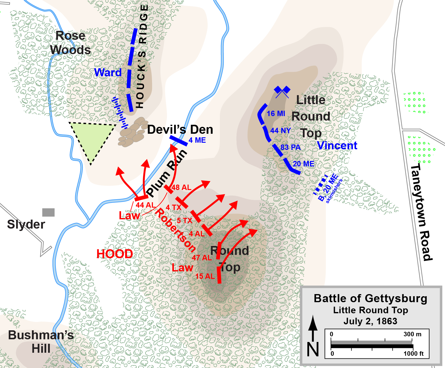 Map of actions in the Battle of Gettysburg, second day, Little Round Top (1 of 2). New version improves accuracy of unit positions and graphic style that matches others in the Gettysburg series. Added legend box. Drawn by Hal Jespersen in Adobe Illustrator CS5. Graphic source file is available at